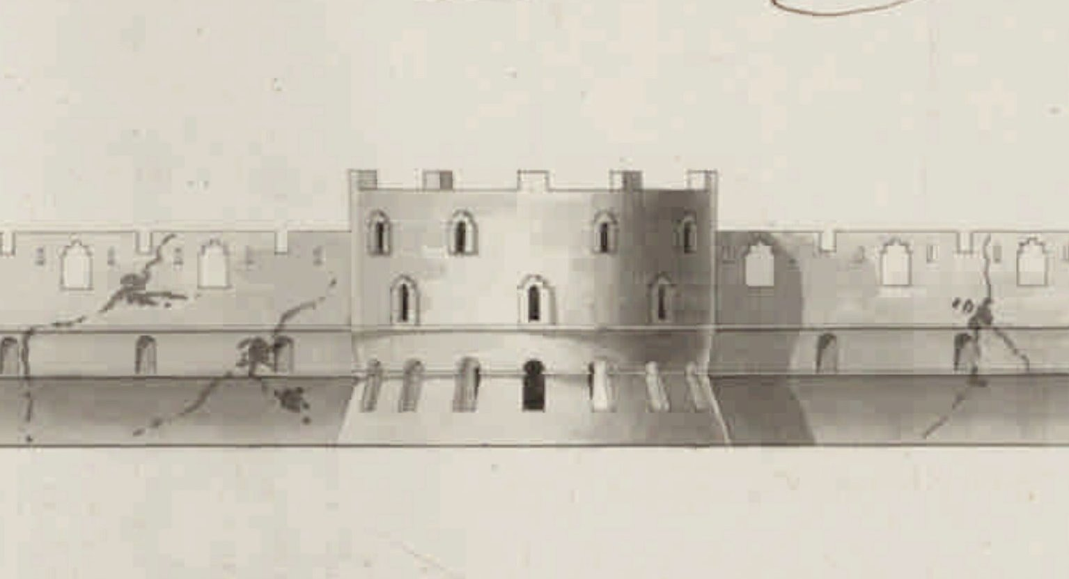 Bird tower of Kitai-gorod. Moscow.